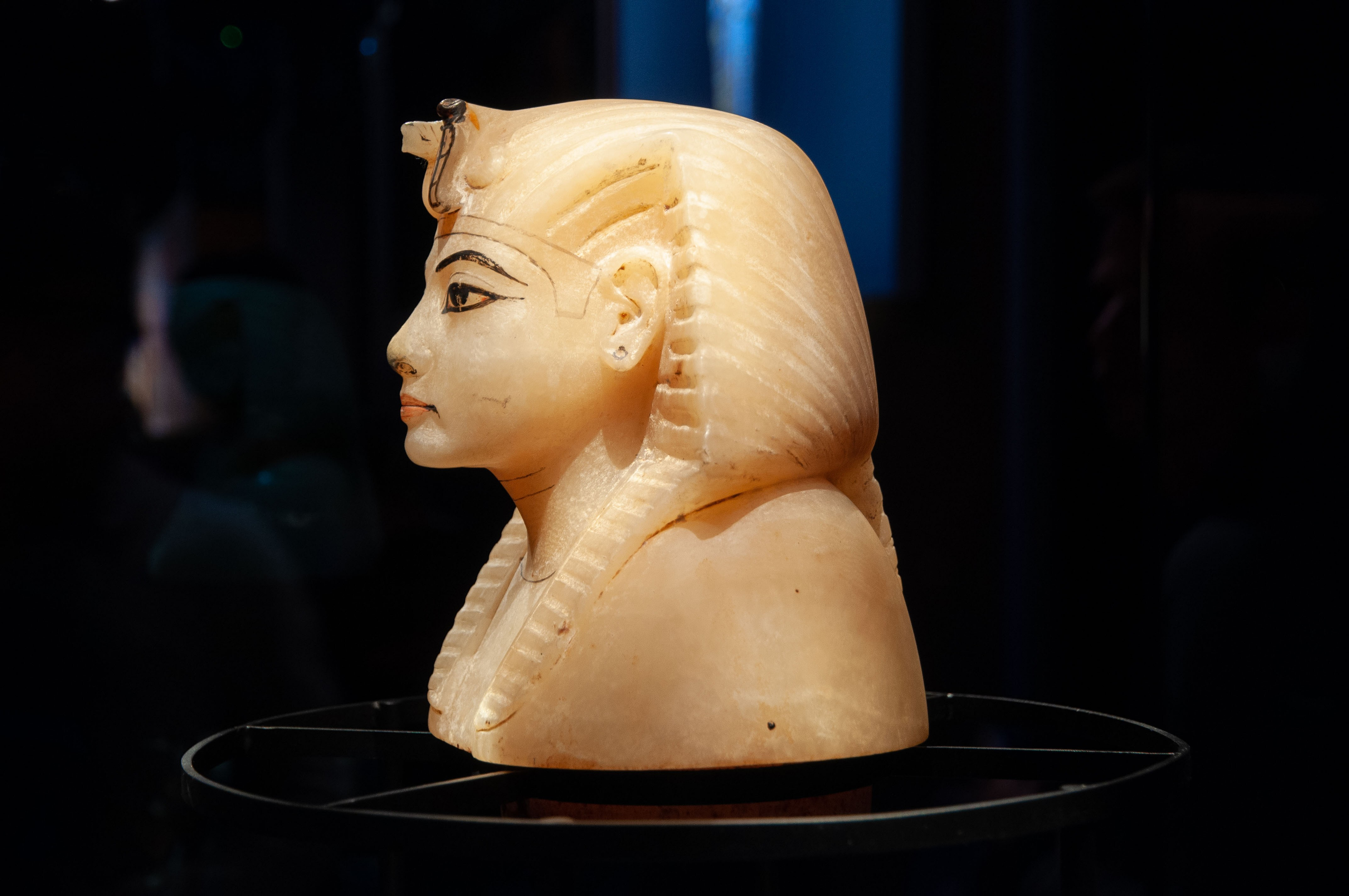 Head inspired by the face of Tutankhamun at the time of his death.